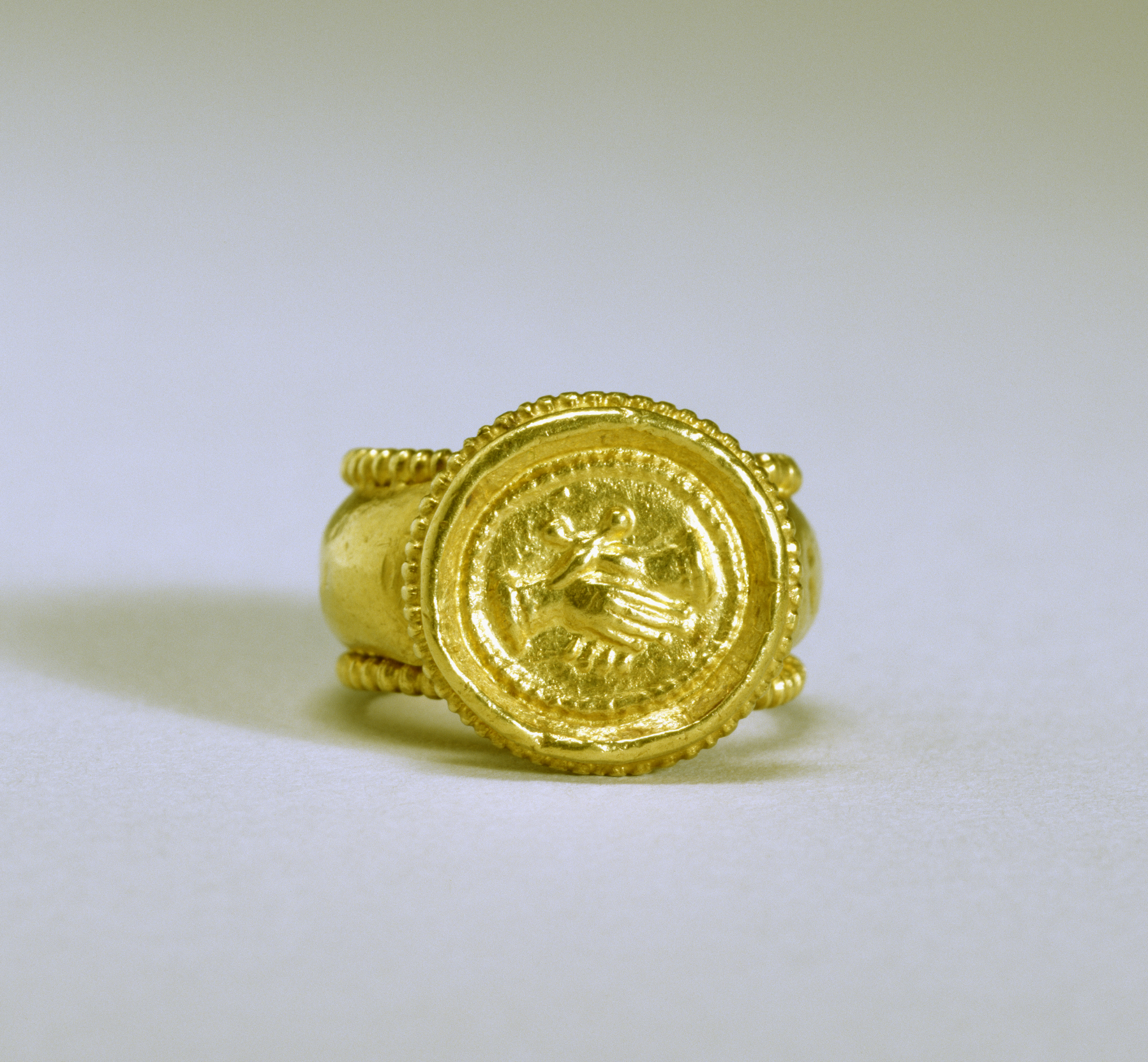 The hoop and circular bezel of this gold ring are edged with beads. The motif of the clasped hands, signifying love, betrothal, and marriage, was first introduced in the Roman period and remained a popular symbol until the 19th century. These rings are also called "fede rings," named after the Italian term for good faith and belief.